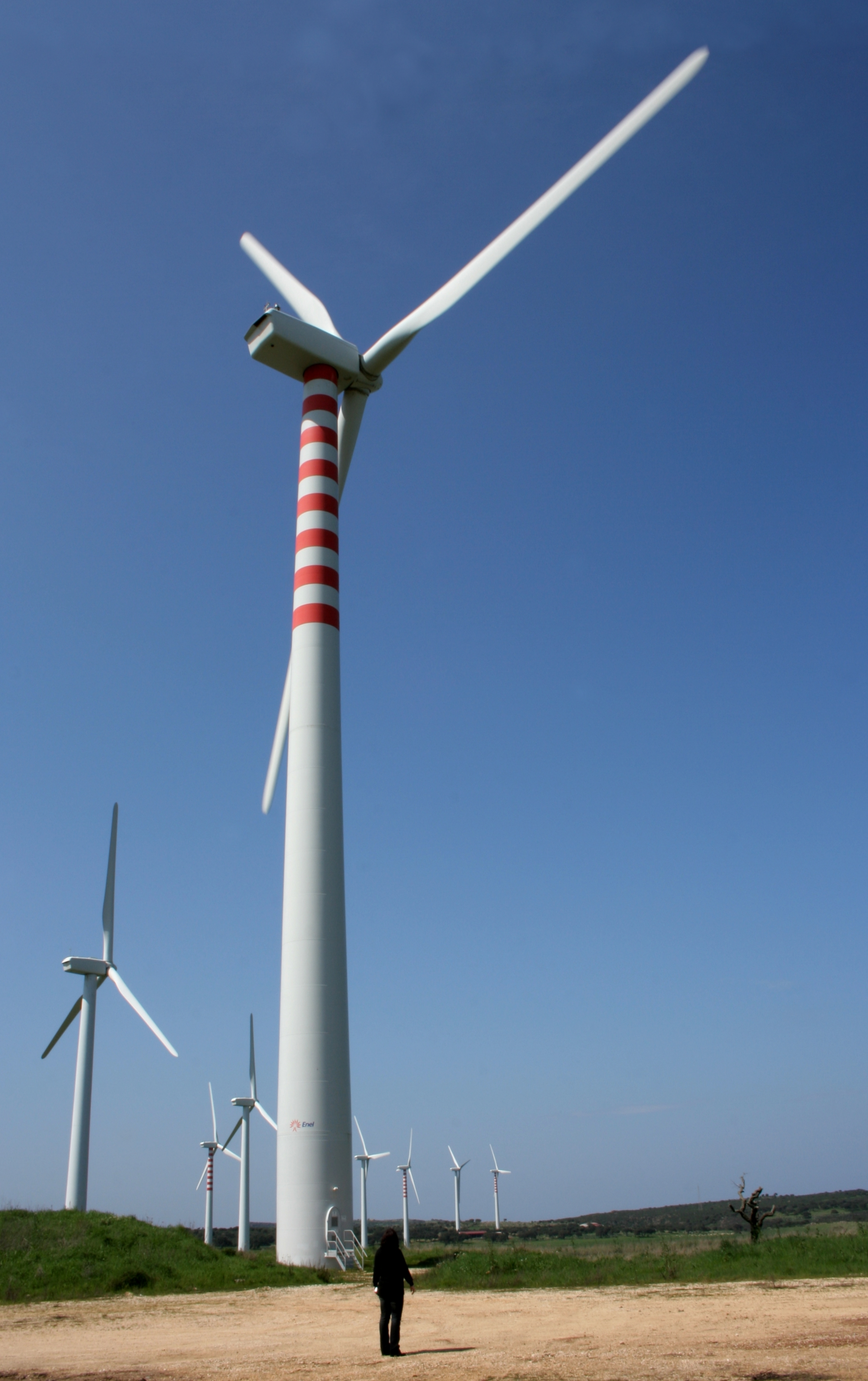 A wind farm in Sardinia - Sedini, Province of Sassari